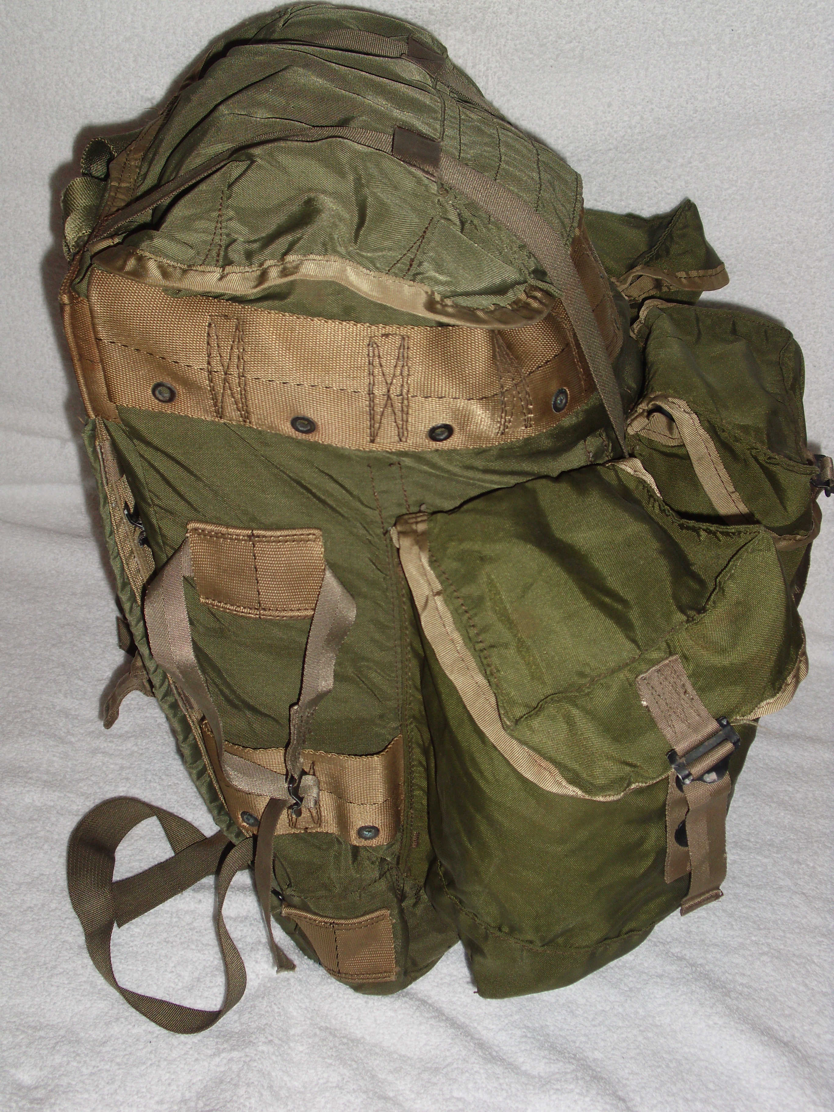 Tropical Rucksack Side View